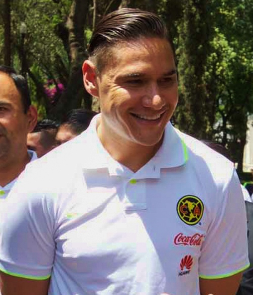 Moisés Muñoz